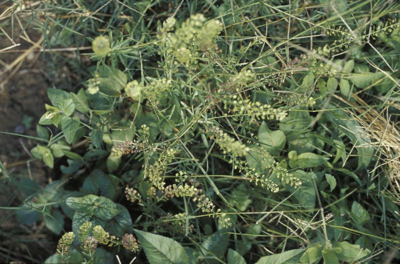 BRASSICACEAE, LEPIDIUM AFRICANUM (Burm.f.) DC., 1_par_Lucile